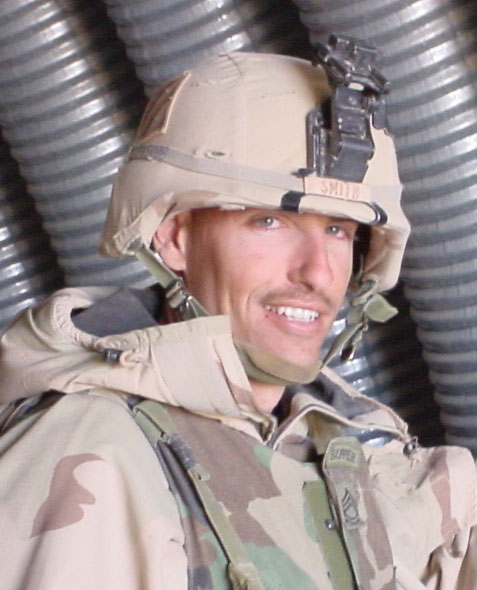 Sgt. 1st Class Paul Ray Smith, posthumous Medal of Honor recipient with B Company, 11th Engineer Battalion, 3rd Infantry Division, U.S. Army.